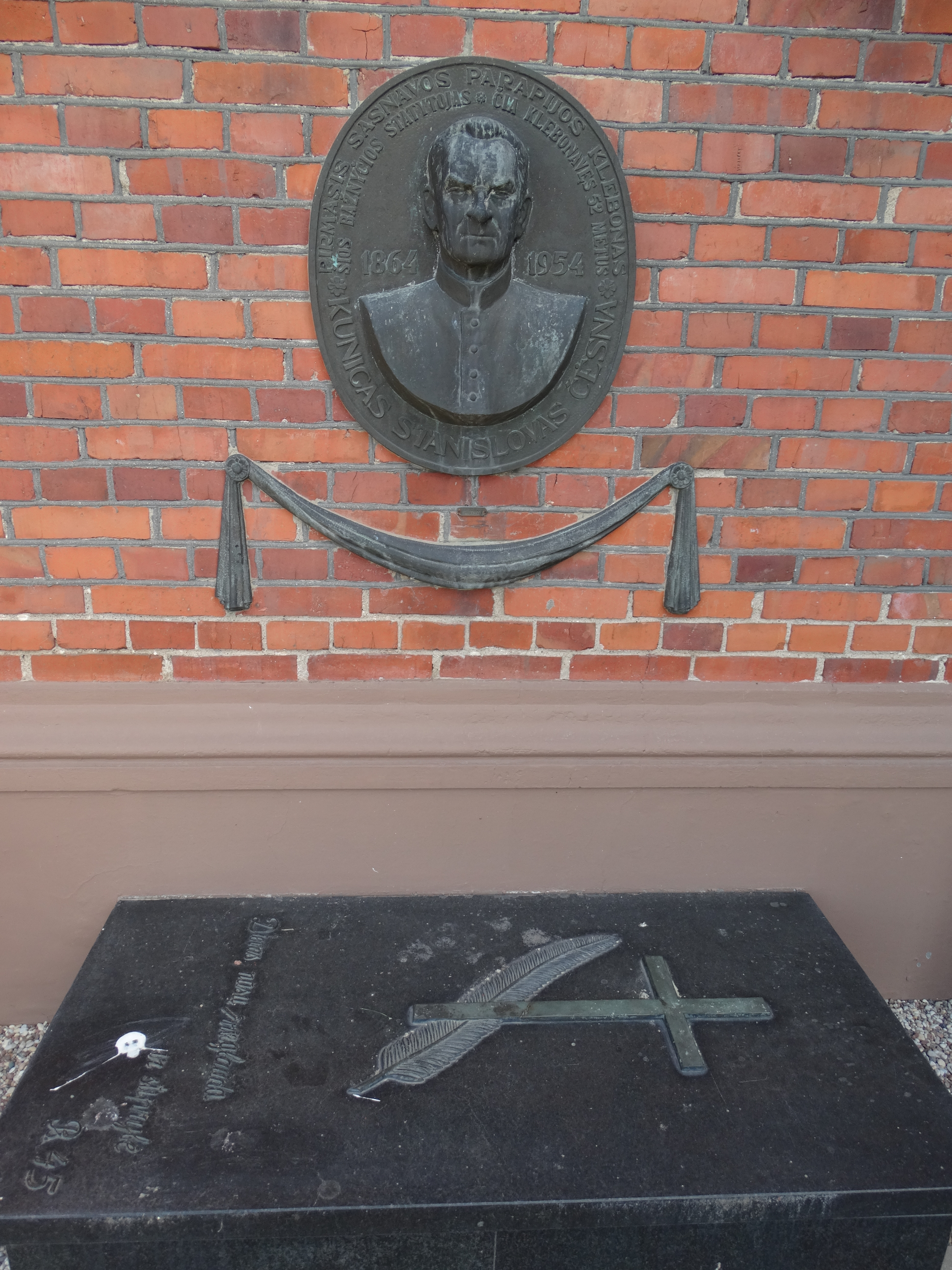 Tomb of Stanislovas Čėsna, by Sasnava church, Marijampolė Municipality, Lithuania